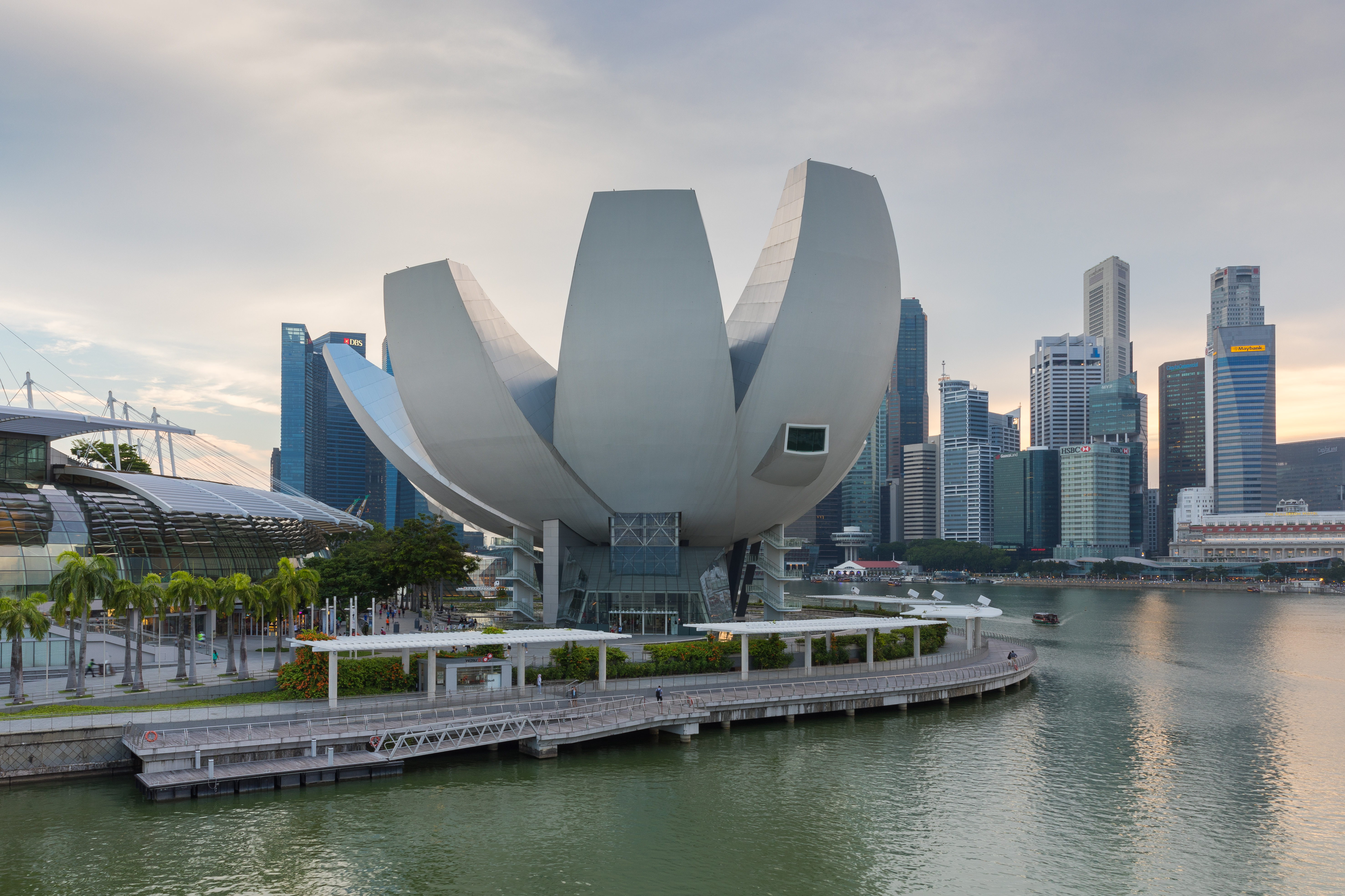 ArtScience Museum, Marina Bay Sands, in the late afternoon, in front of the skyline of the Central Business District, Singapore. Architect : Moshe Safdie.